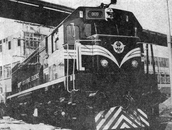 EMD GT22HW locomotive in the former Yugoslavia. Designated there as Series 645